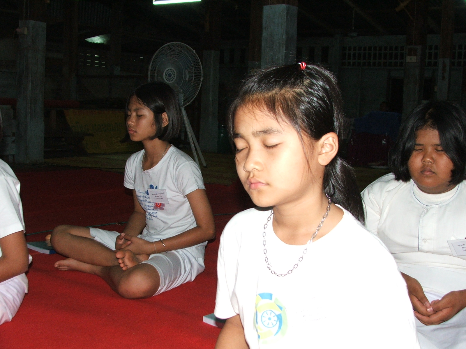 Thai Buddhist child is sitting the concentration happily . Thailand, Uttaradit, 2006. Own work